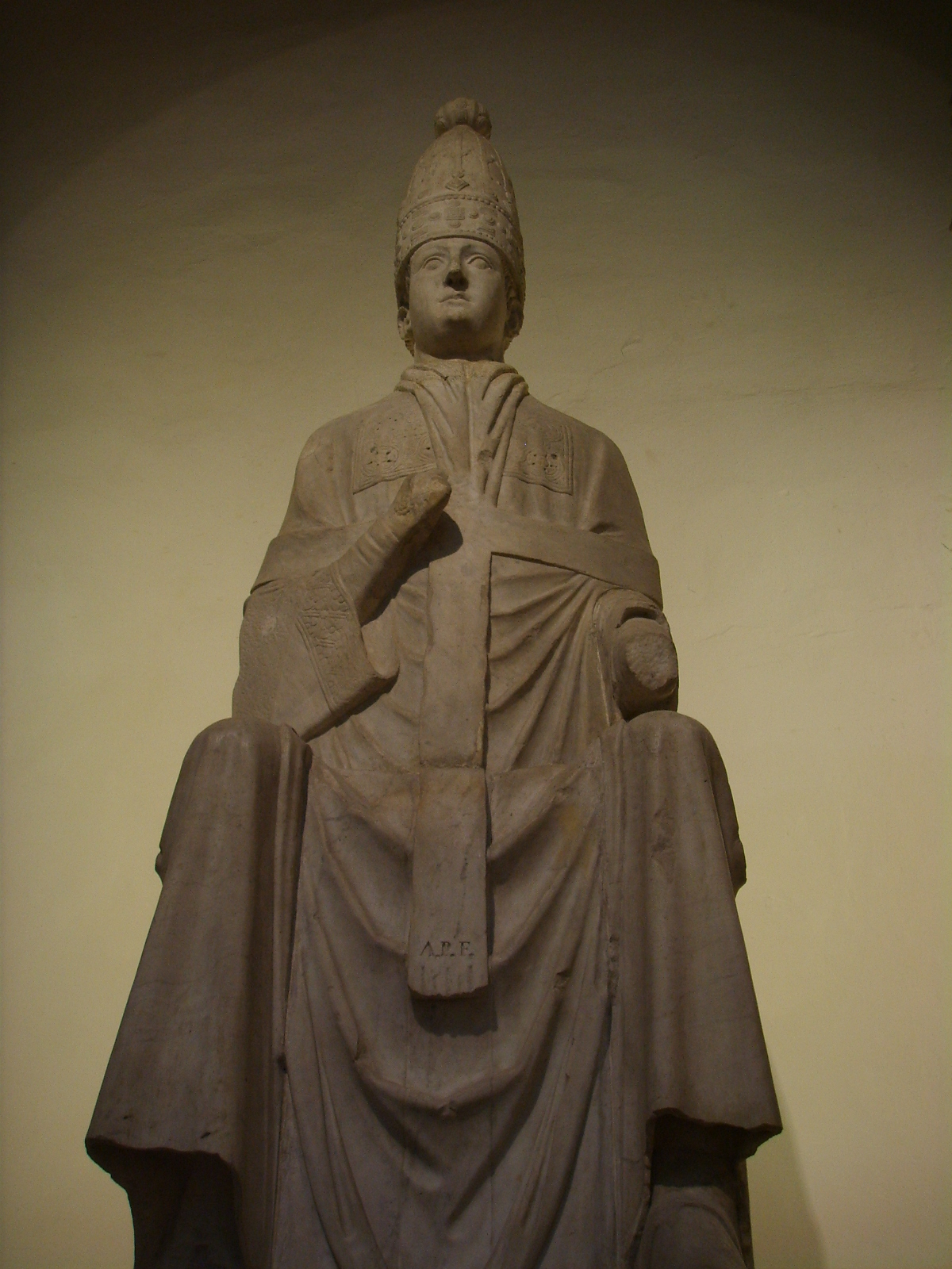 Pope Bonifacius VIII; statue by Arnolfo di Cambio, in the "Opera del Duomo Museum" in Florence, Italy. Around 1298.